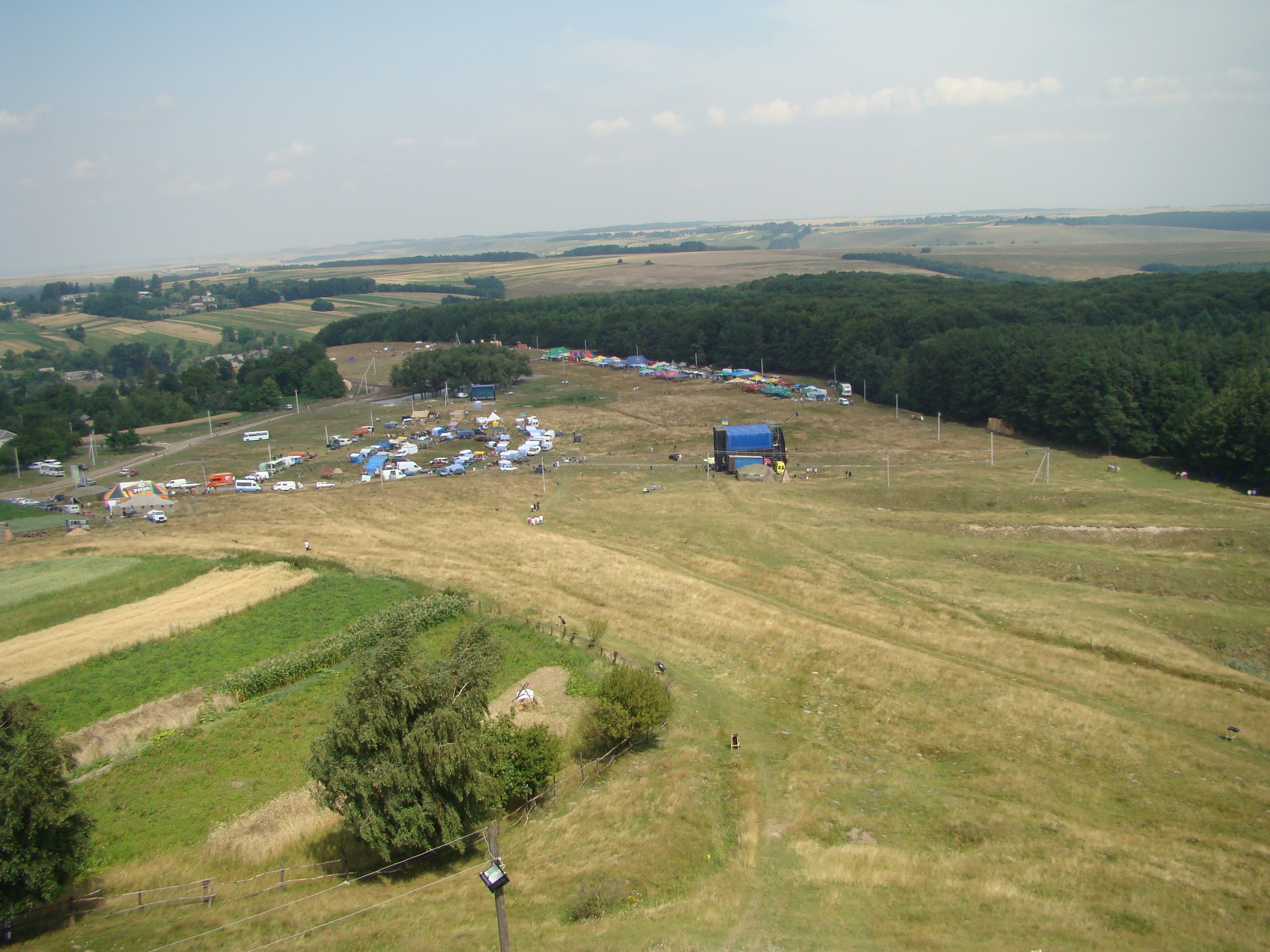 Place of helding of "Pidkamiń" festival (2009) /look from Giant Stone/